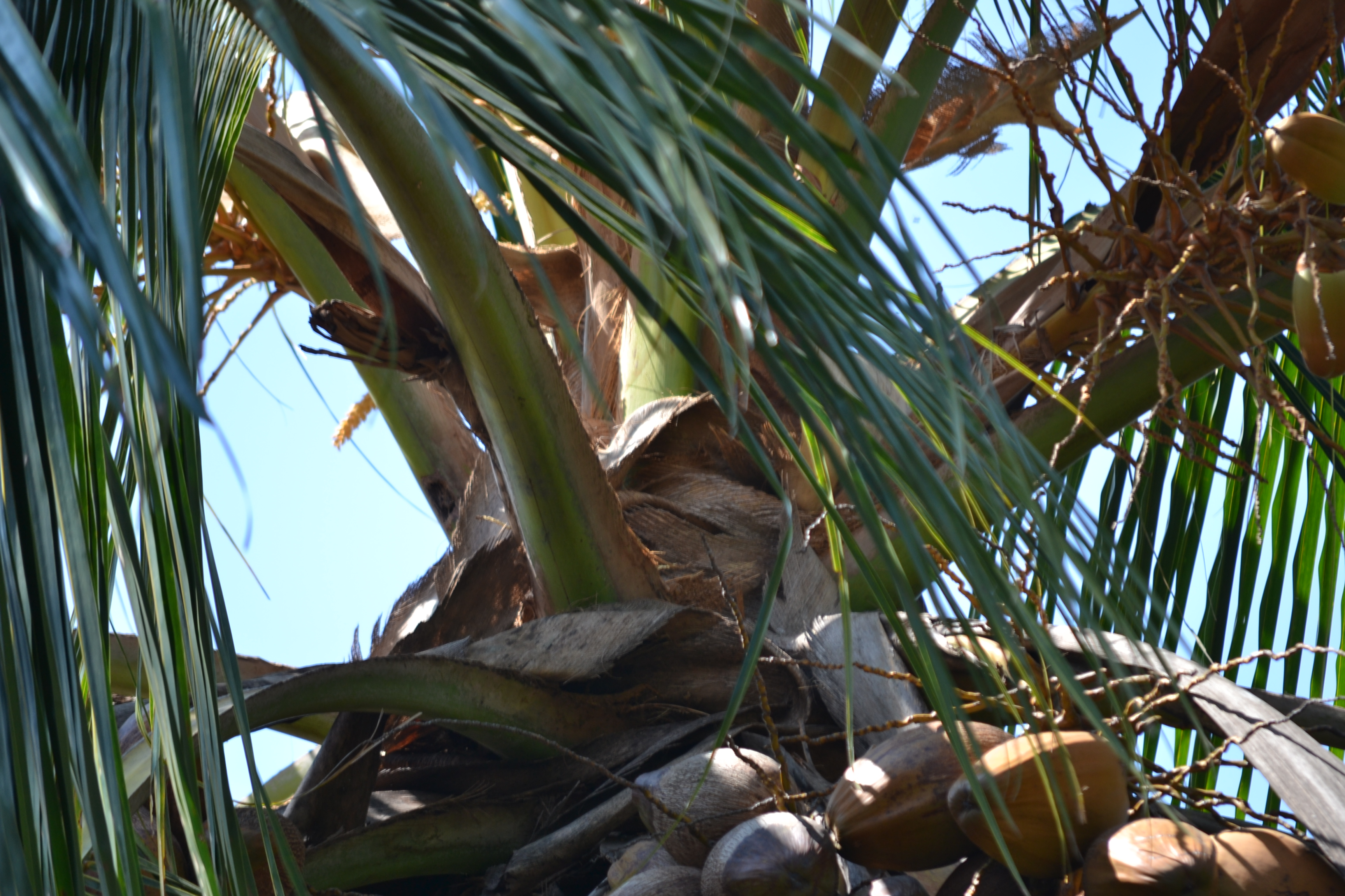 This is apart of coconut tree...